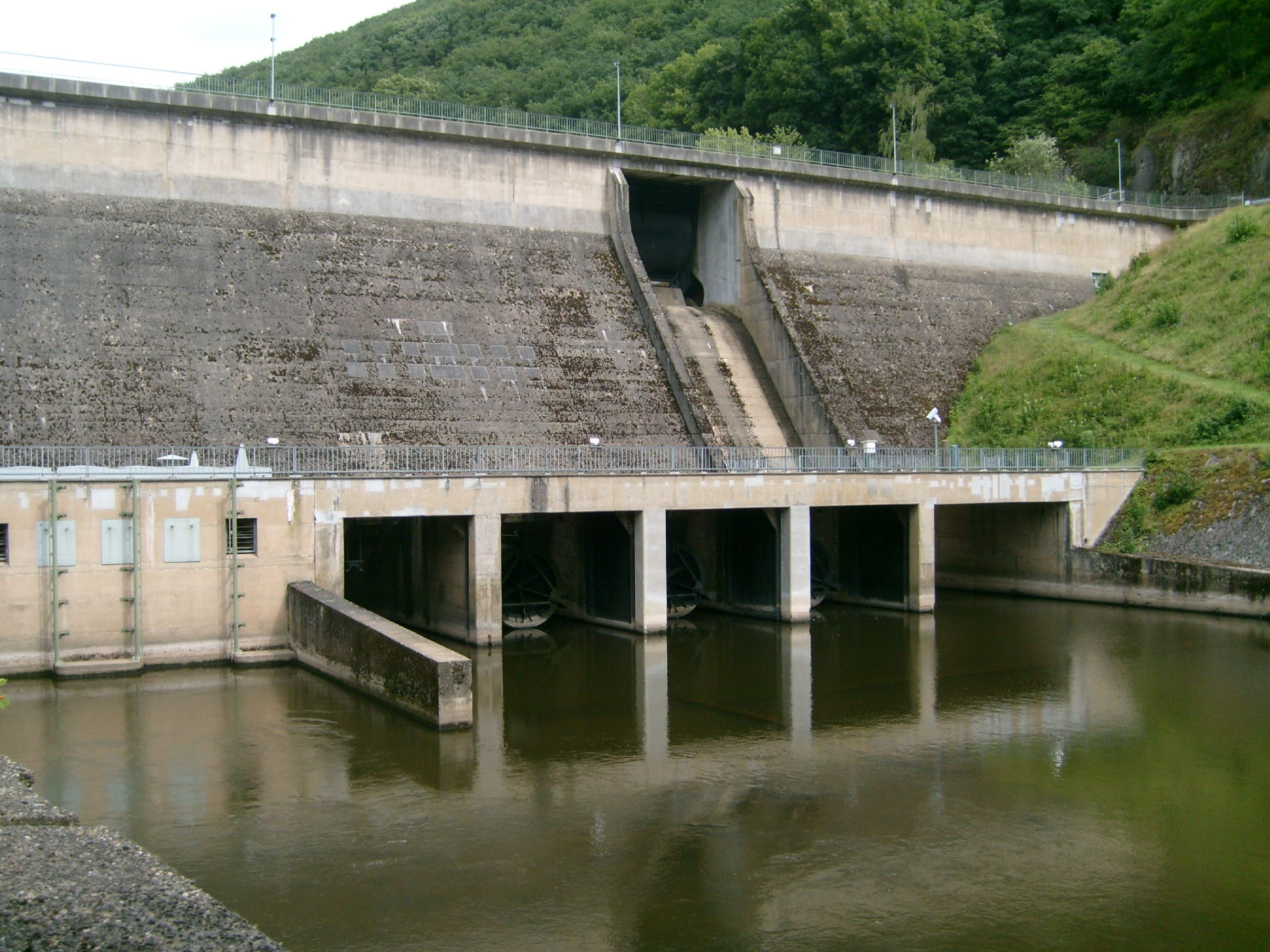 The Barrage of the Our river next to Vianden, Luxembourg.